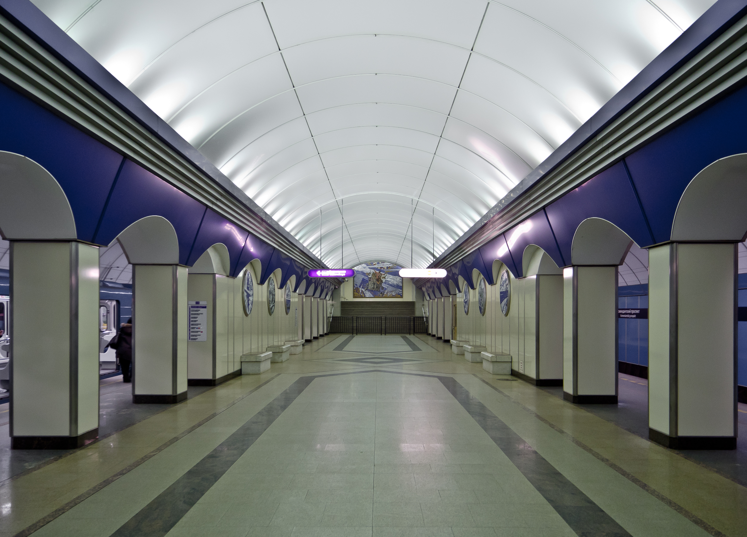 Komendantskiy Prospekt station of Saint Petersburg Subway